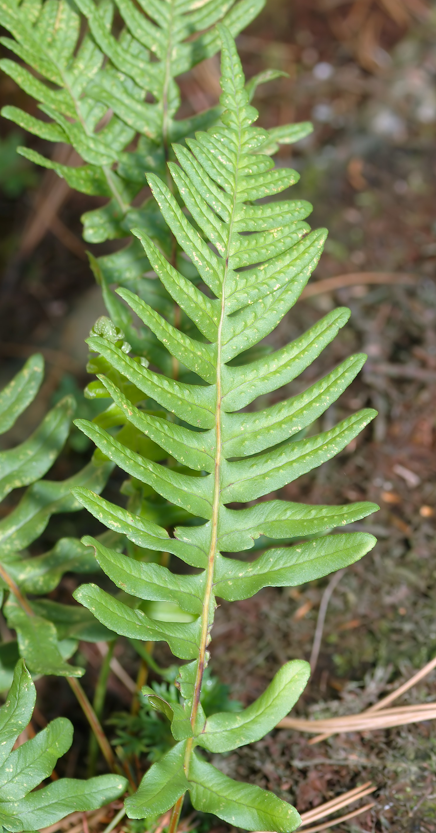 This image shows a Common Polypody plant (Polypodium vulgare).